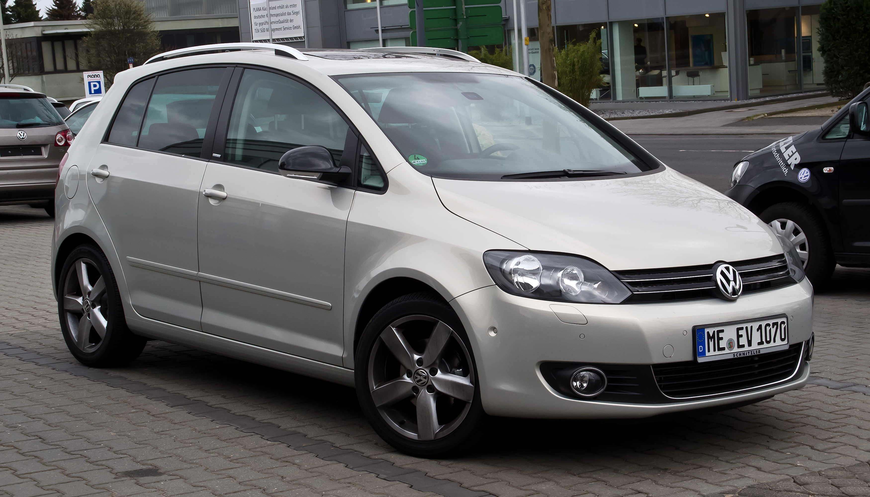 VW Golf Plus Style (Facelift)